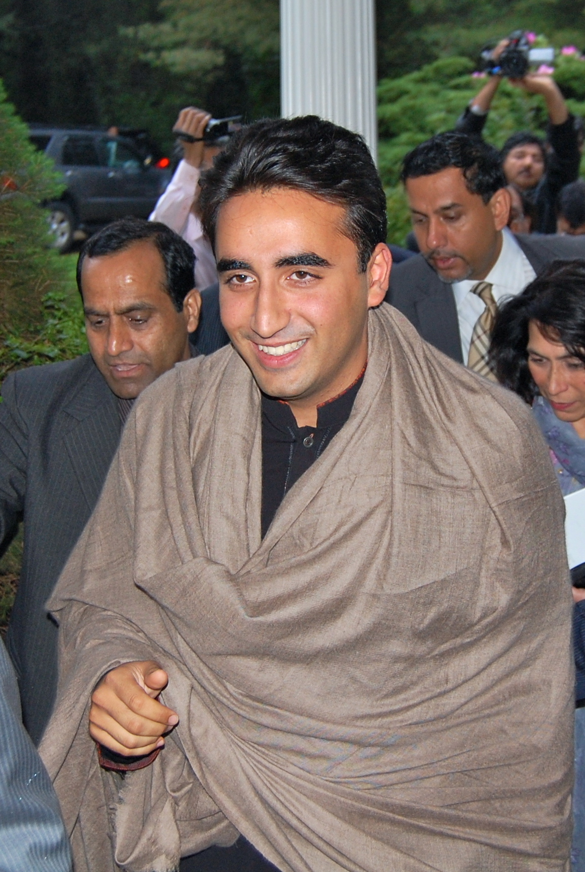 BBZ is all smiles as he stages an impromptu appearance at a local Pakistan People's Party meeting in Old Westbury, NY